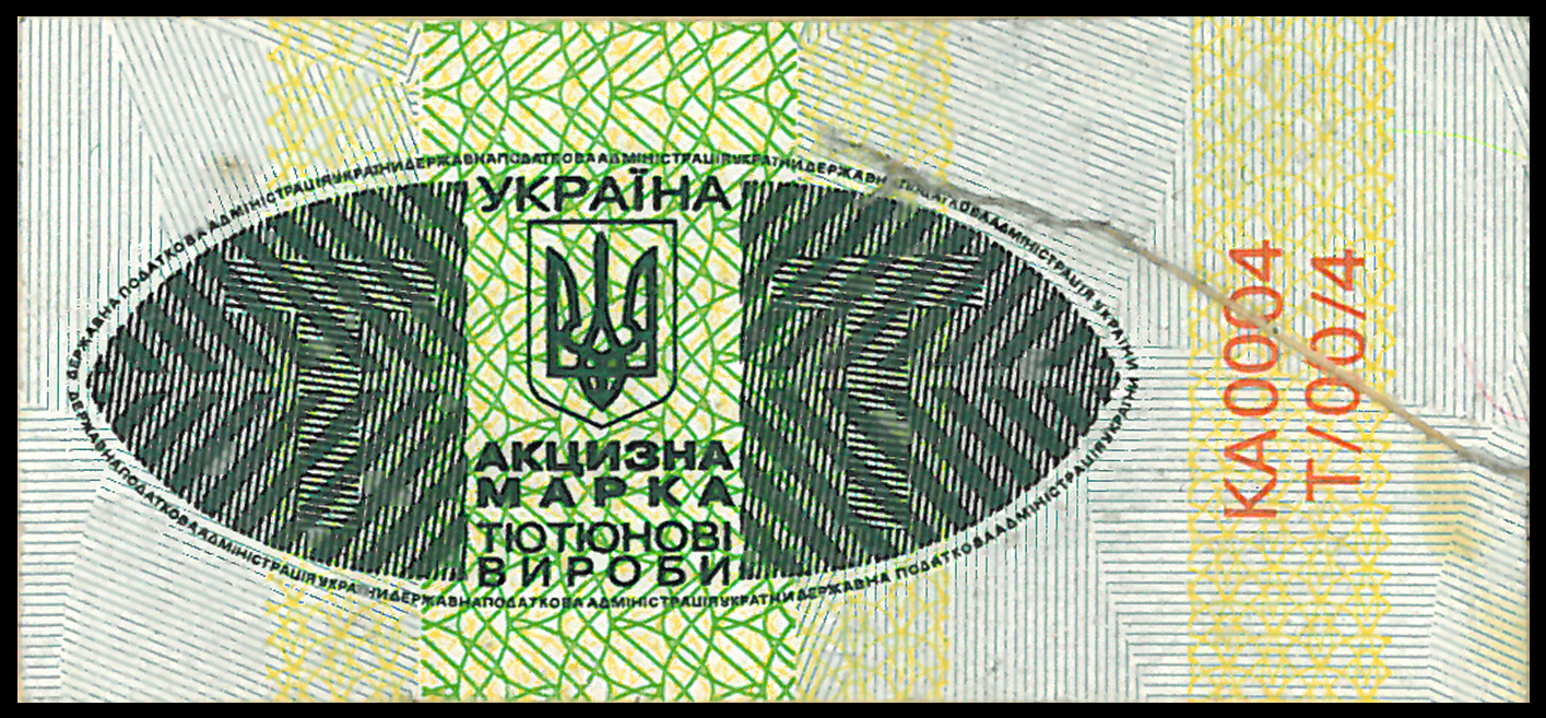 Excise stamp of Ukraine on tobacco products, 2000?